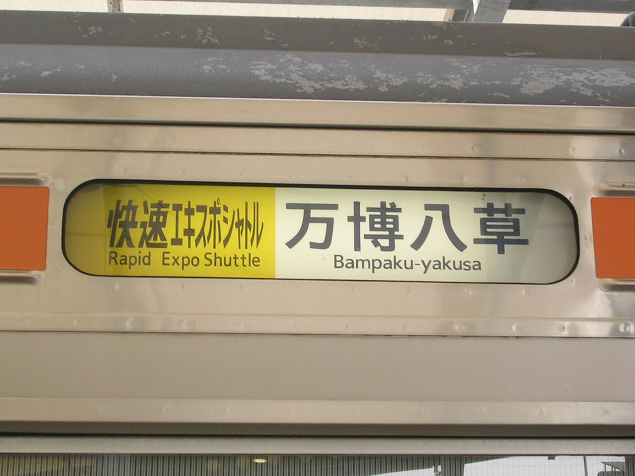 JR東海の「エキスポシャトル」の側面方向幕 (Central Japan Railway "Expo Shuttle" Rollsign)